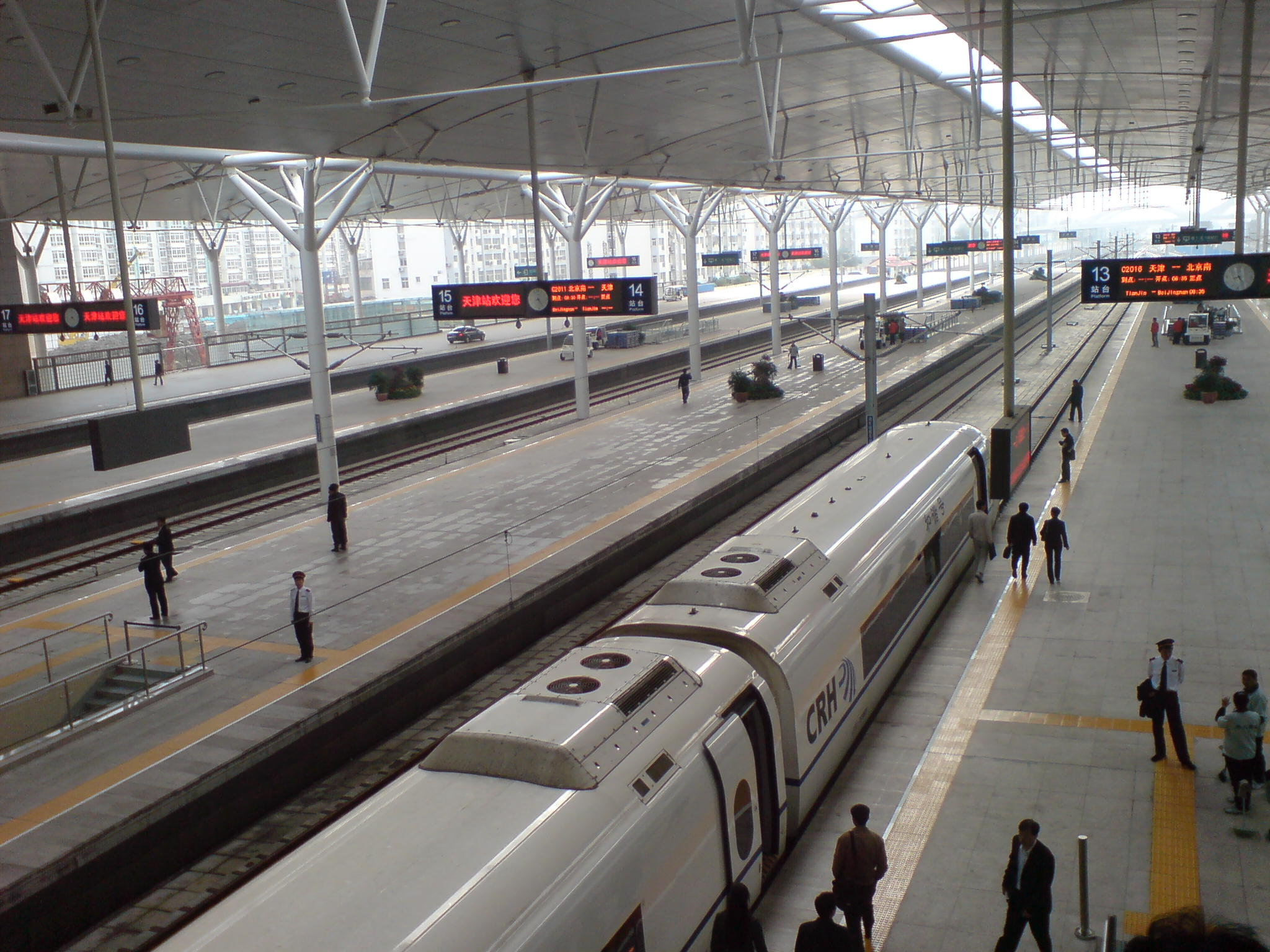 New high-speed train and train station in Tianjin, China 天津站